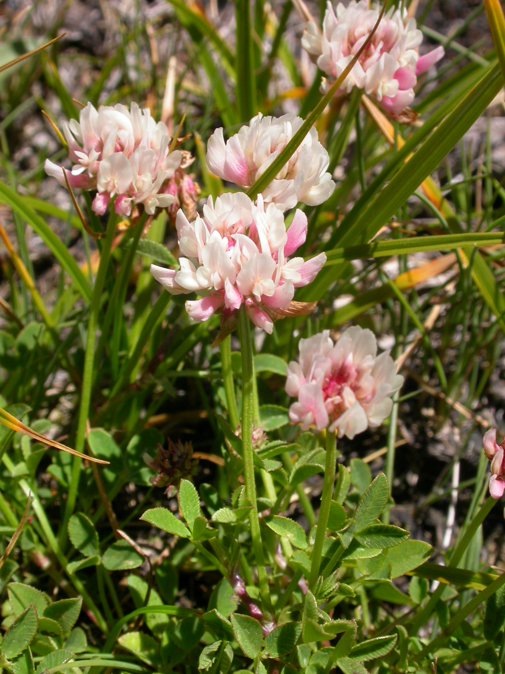 Trifolium pallescens Zermatt, Riffelberg (Kanton Wallis, Switzerland), 2500 m Author: Barbara Studer – own photograph Date: 2.08.06